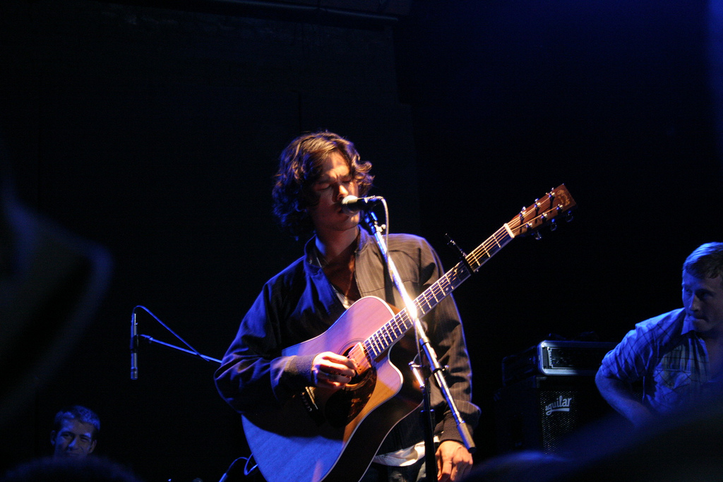 Justin Nozuka a New York turned Canadian, acoustic Musician. Playing at the Bowery Ballroom